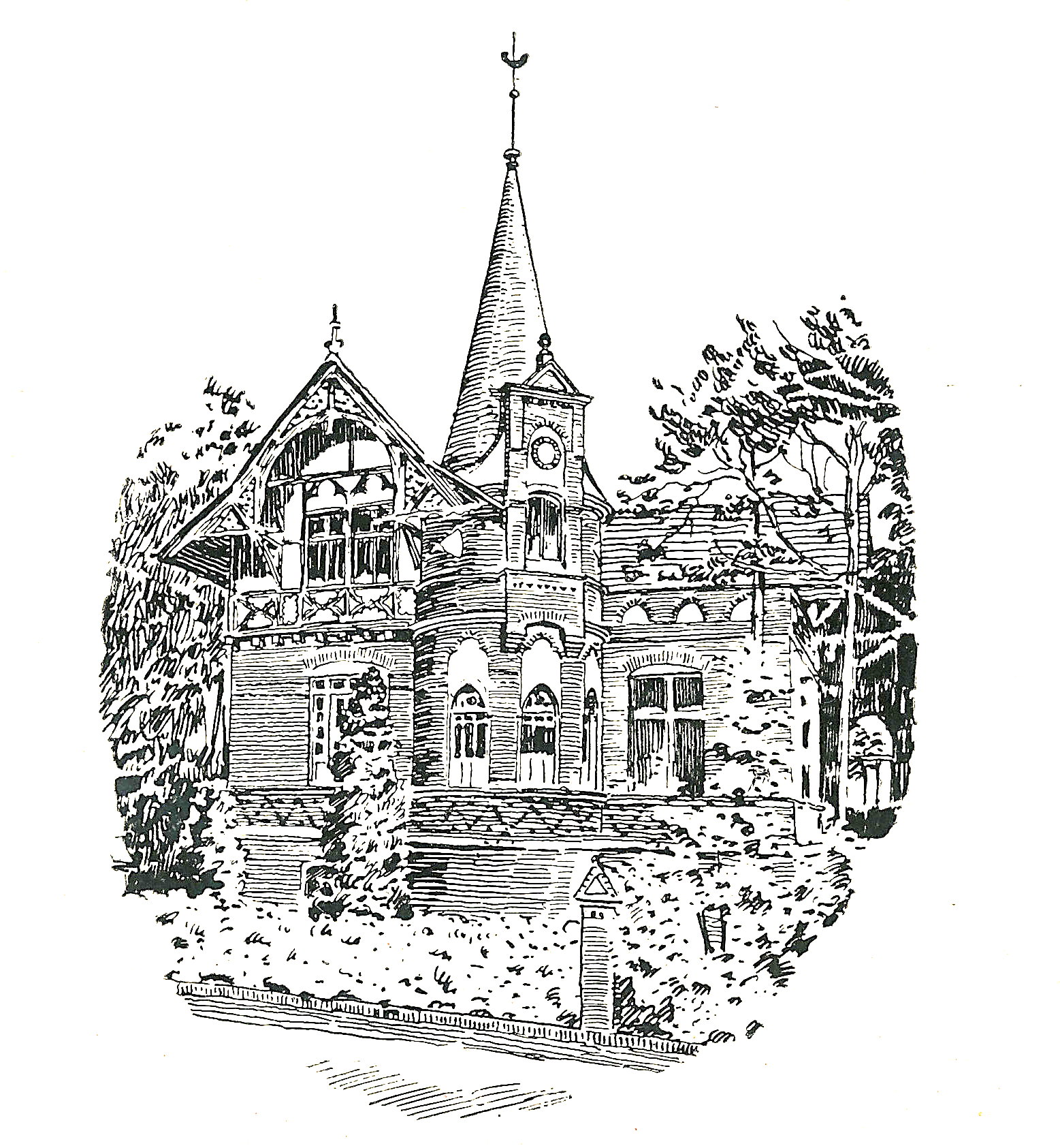 Former house of former student fraternity Corps Vandalia Berlin (Germany), Villenkolonie Grunewald, Schinkelstraße 8